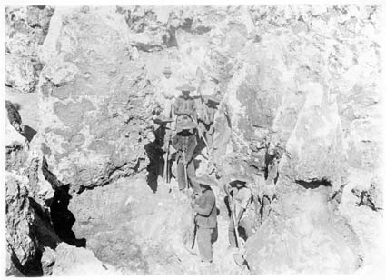 Workers (probably chinese) between limestone pinacles mining Nauru Phosphate